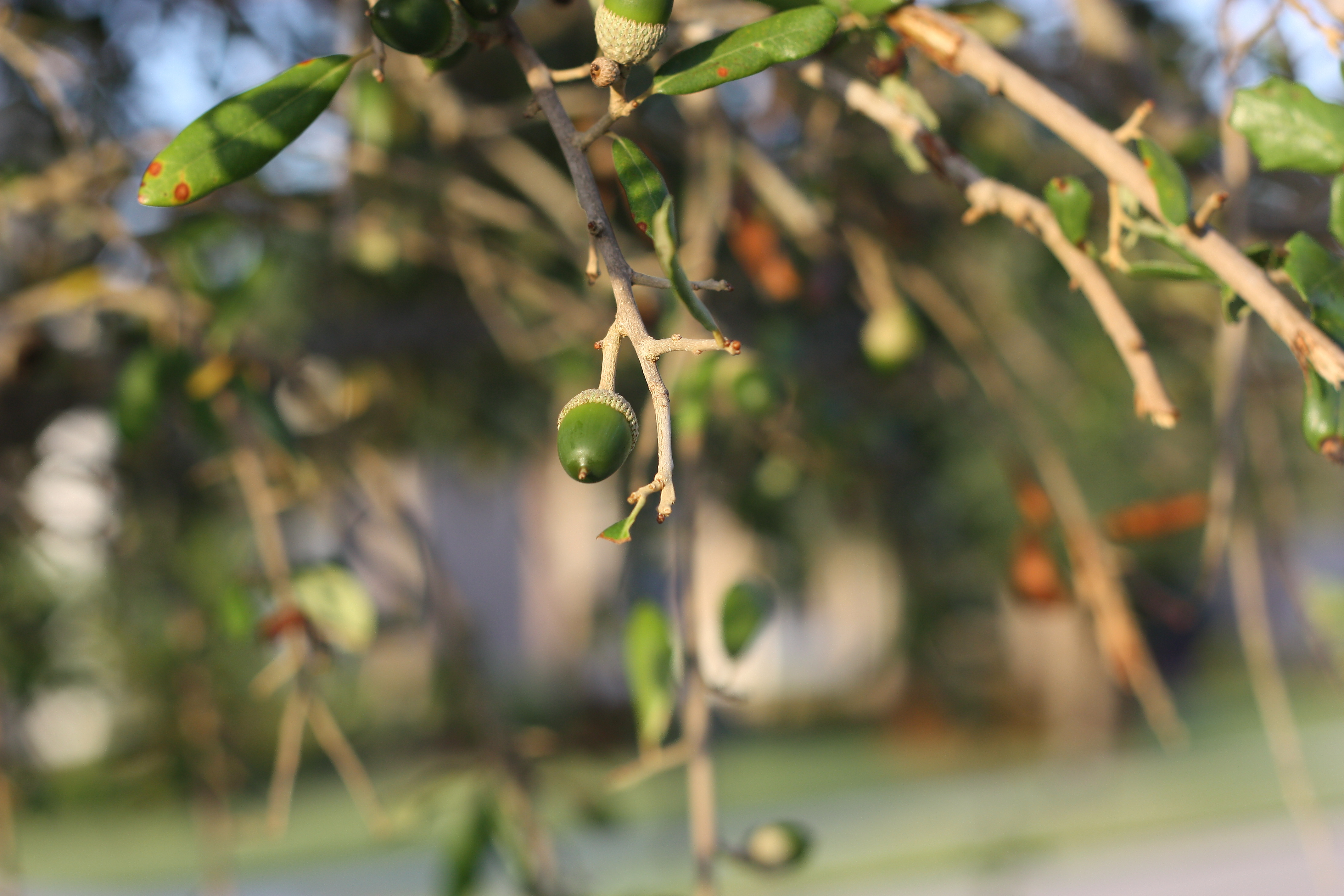 Quercus virginiana foliage and acorns